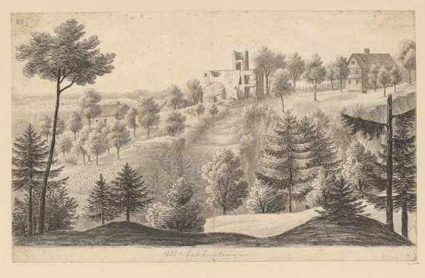 wrong description: Ruine Schönstein (Möggers V BH Bregenz): "Alt-Schönstein". Pencildrawing by Johanna von Isser (1802-1880), about 1827.correct: Ansitz Halbenstein (Hörbranz V BH Bregenz): "Halmstein"